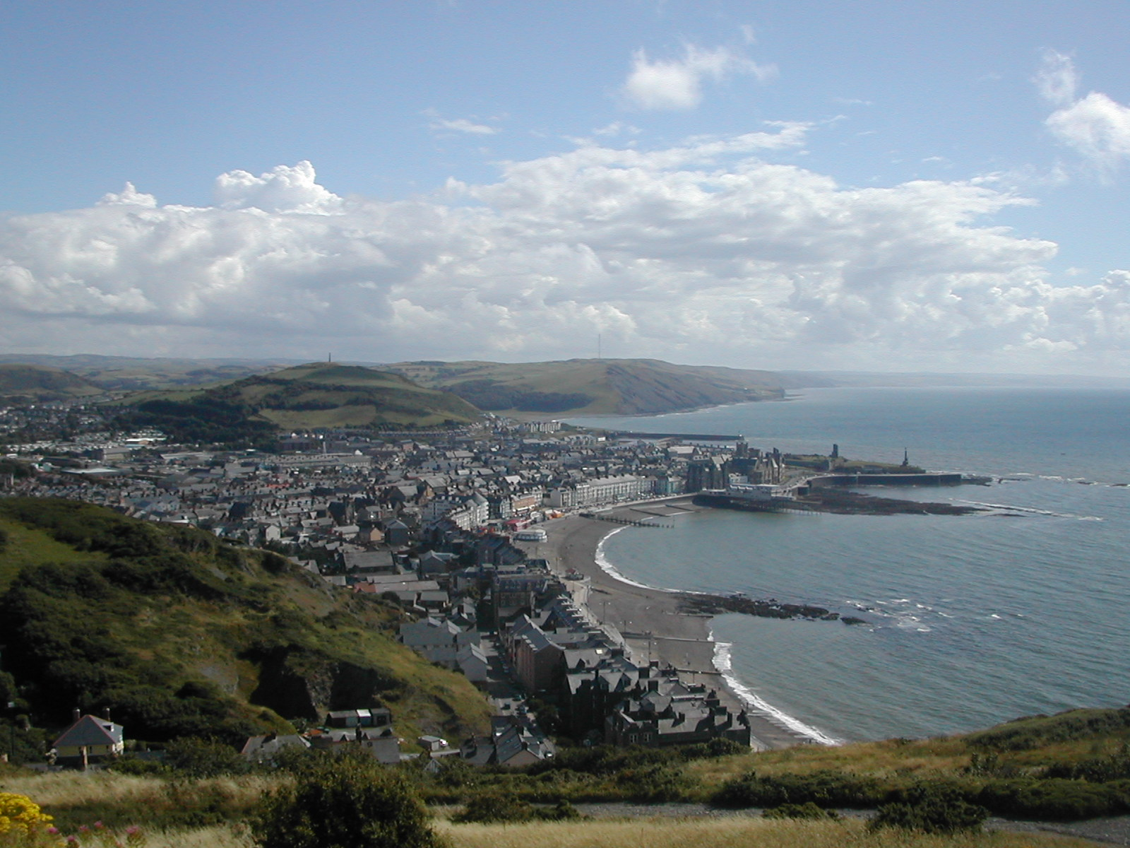 The picture was taken by myself.